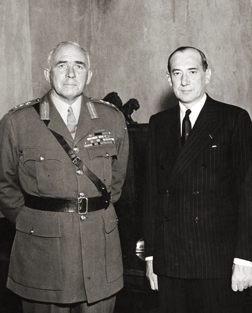 British general Edmund Ironside and Józef Beck - minister of foreign affairs of Poland.